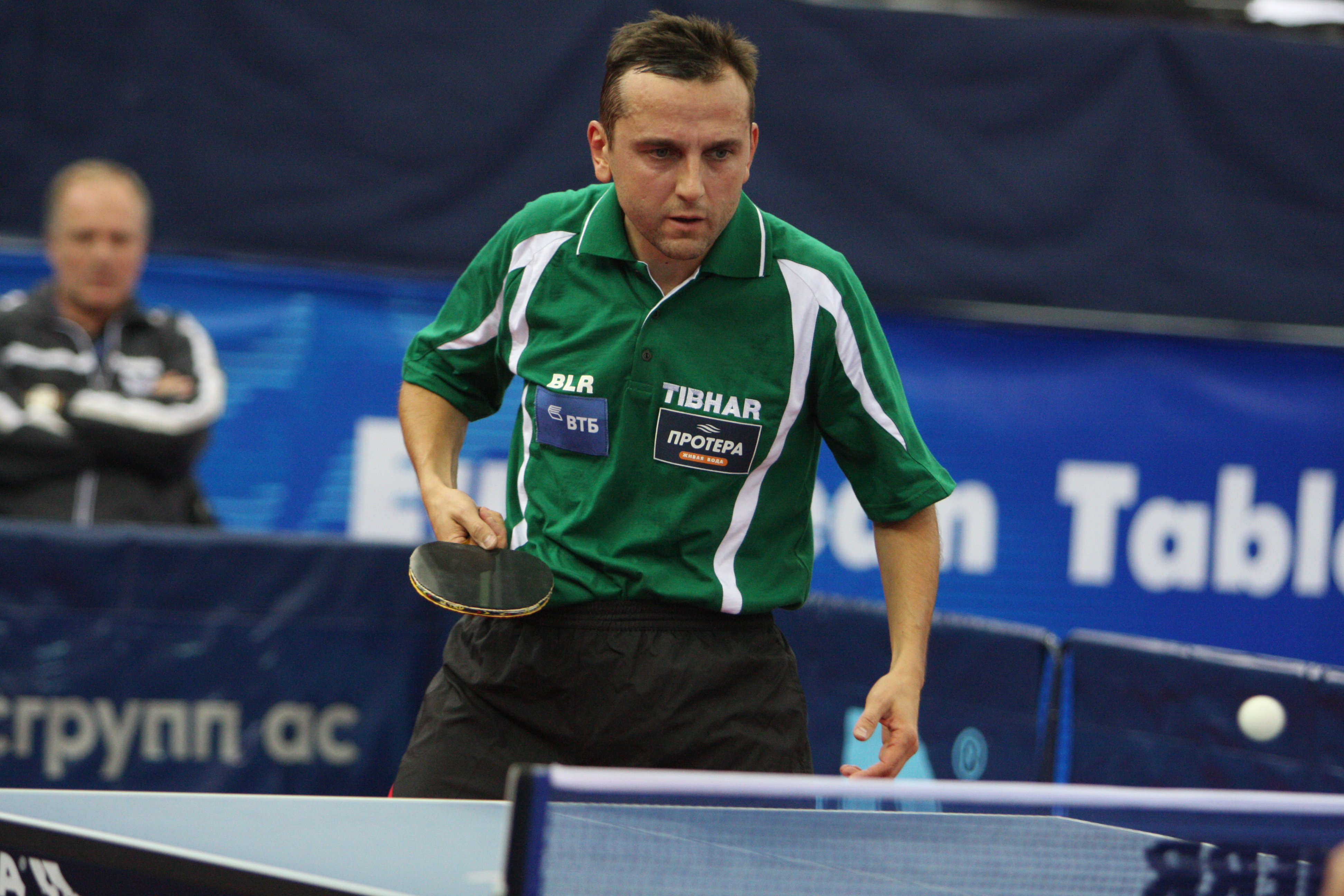 Evgueni Chtchetinine in 2008